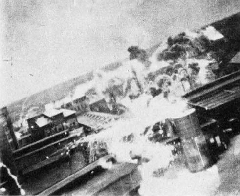 Photo of an attack of Royal Air Force De Havilland Mosquito bombers on the Philipps works at Eindhoven, the Netherlands.